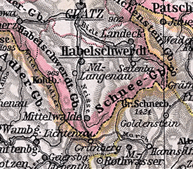 Detail from a map of Silesia.